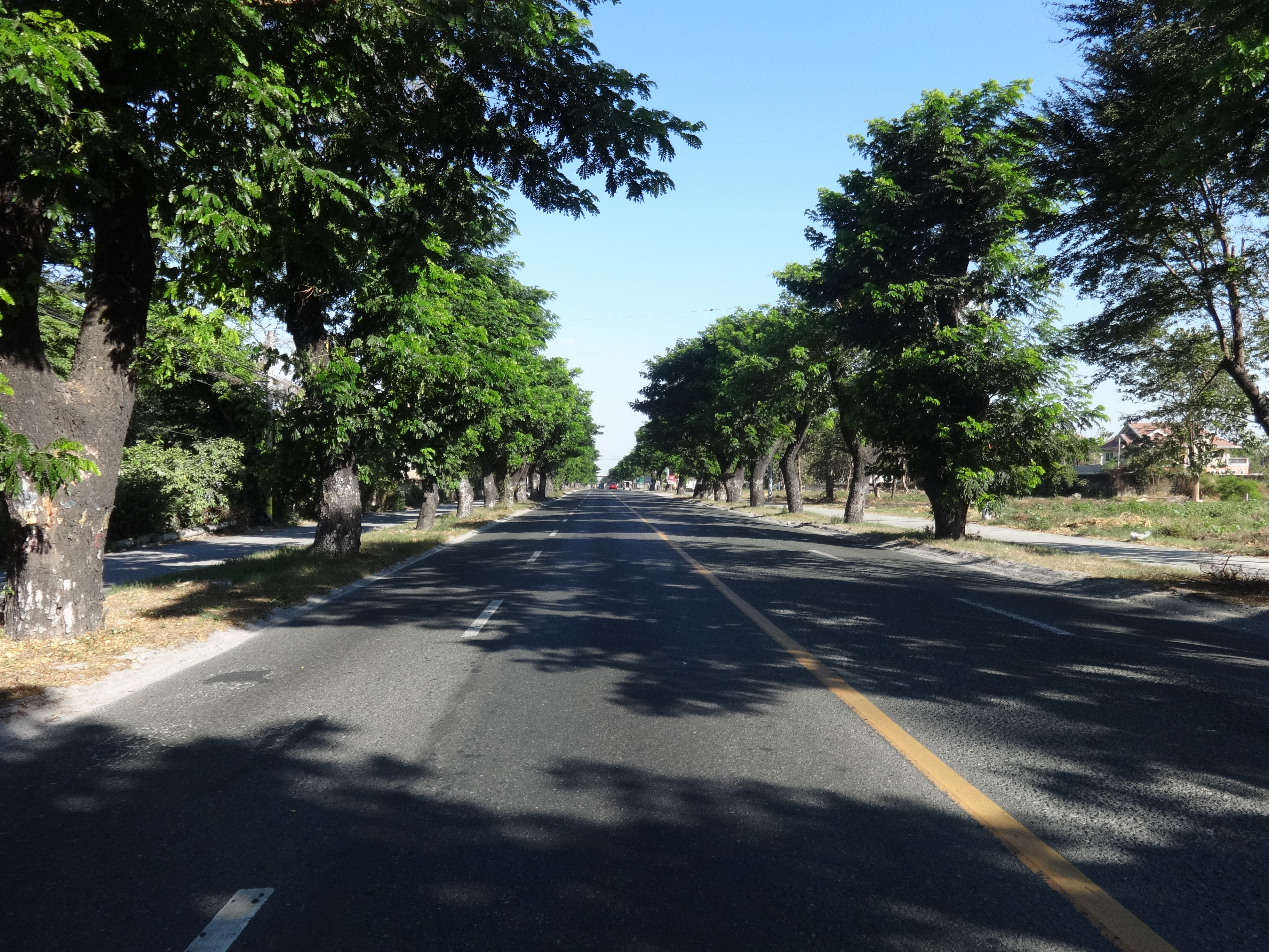 A portion of McArthur Highway (Manila North Road) in Barangay Lara, City of San Fernando, Pampanga